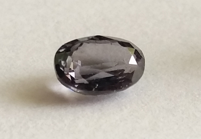 Magnesiotaaffeite (Musgravite) from Sri Lanka, 0.59ct